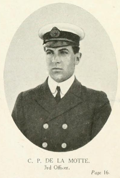 CP de la Motte - "Officers of the Aurora", from With the "Aurora" in the Antarctic, 1911-1914 (1919).